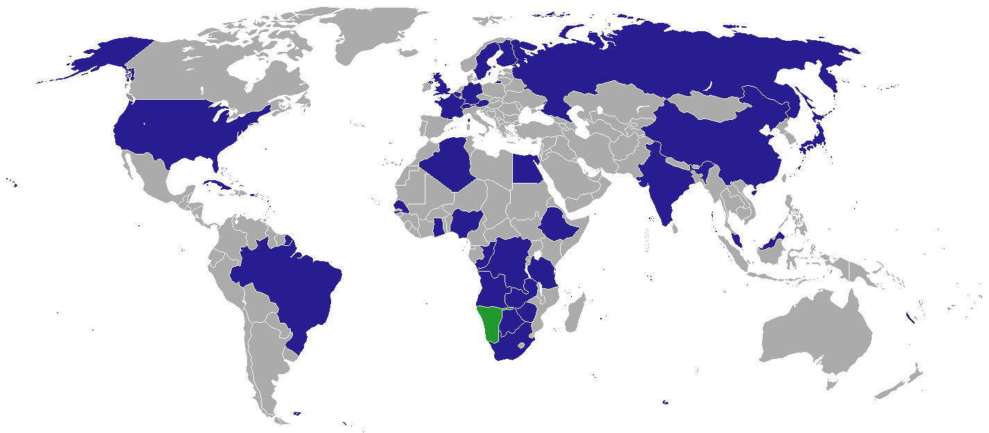 Map of diplomatic missions of Namibia (red = Namibia; dark blue = Embassy or High Commission; light blue = Consulate only)